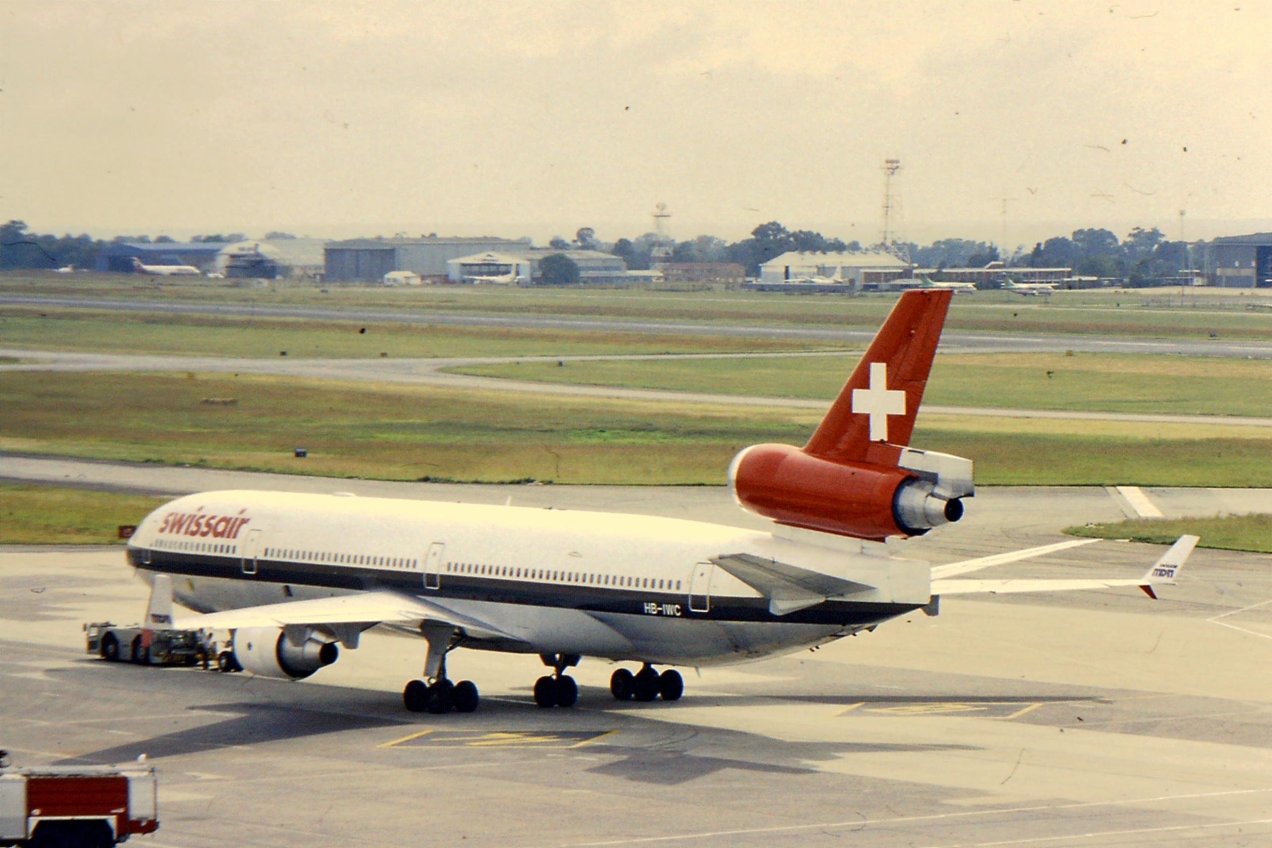 Swissair MD-11 HB-IWC at JNB